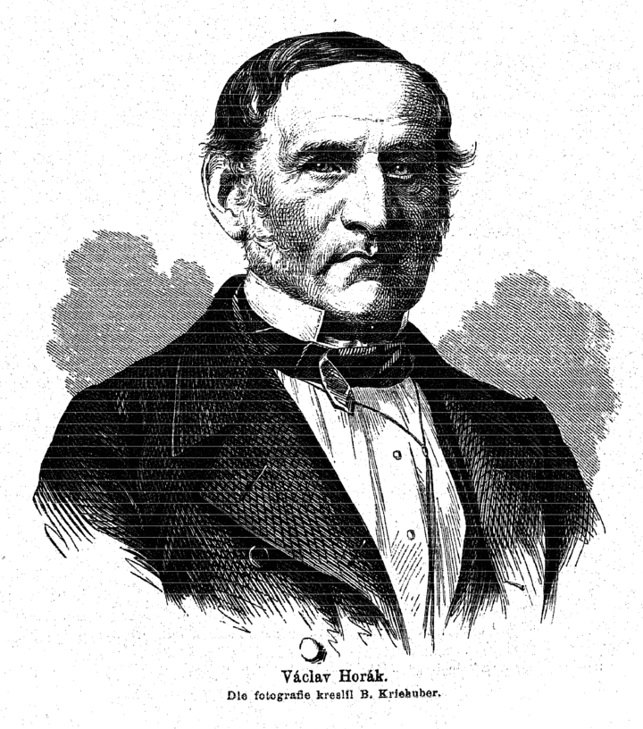 Portrait of Václav Emanuel Horák (1800-1871), Czech composer.